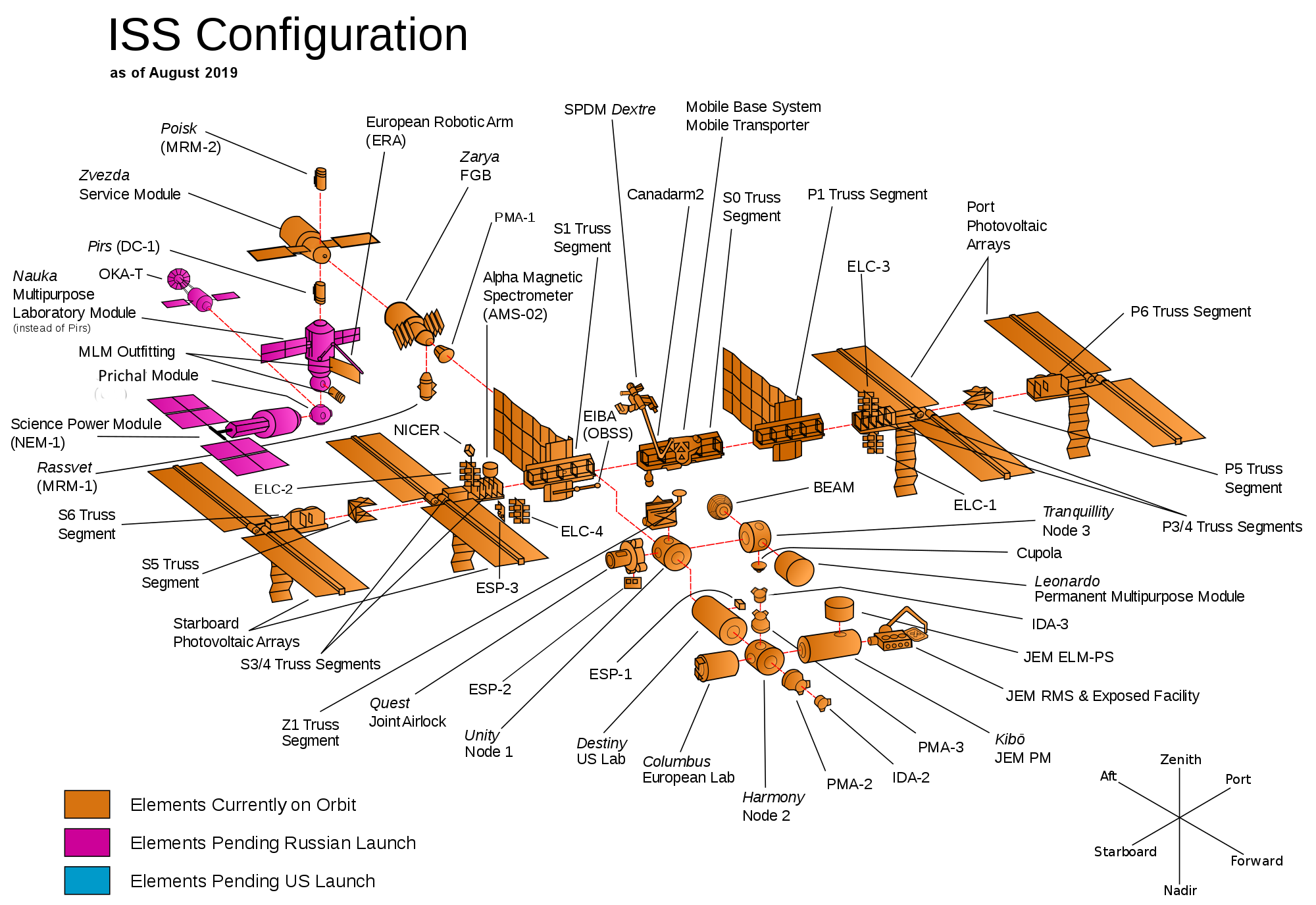 Configuration of the International Space Station as of August 2019